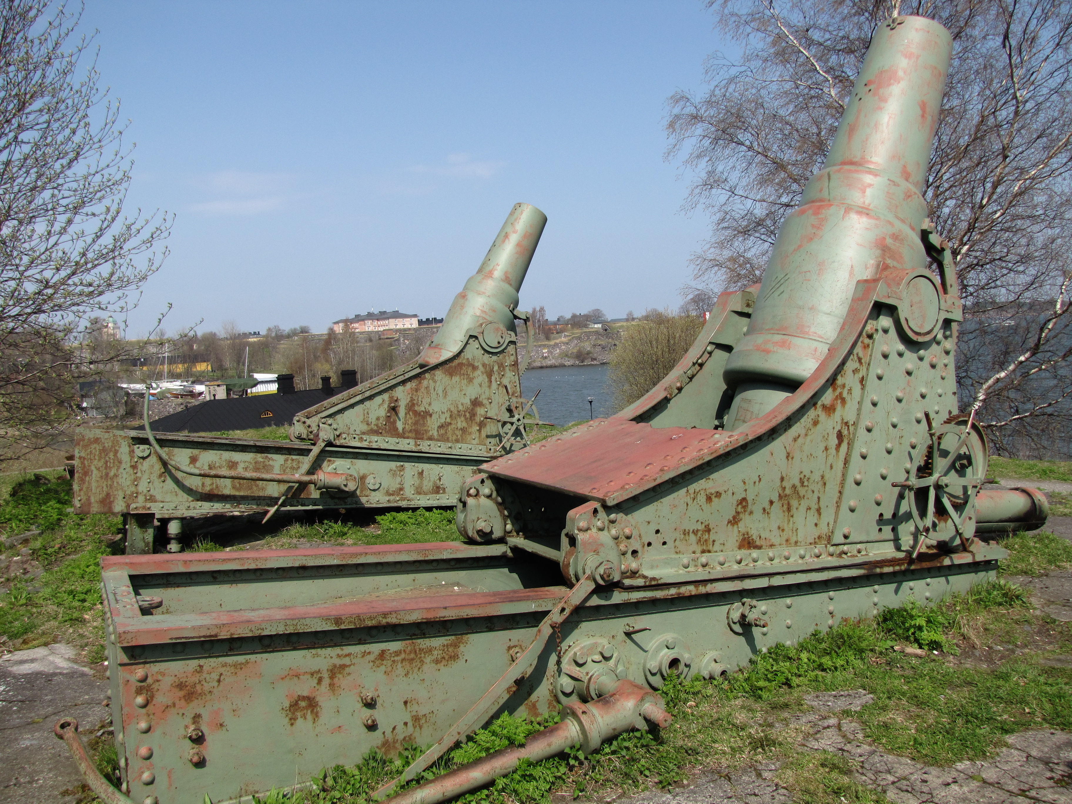 Imperial Russian 11 inch and (last) 9 inch model 1877 coastal mortars in Suomenlinna.